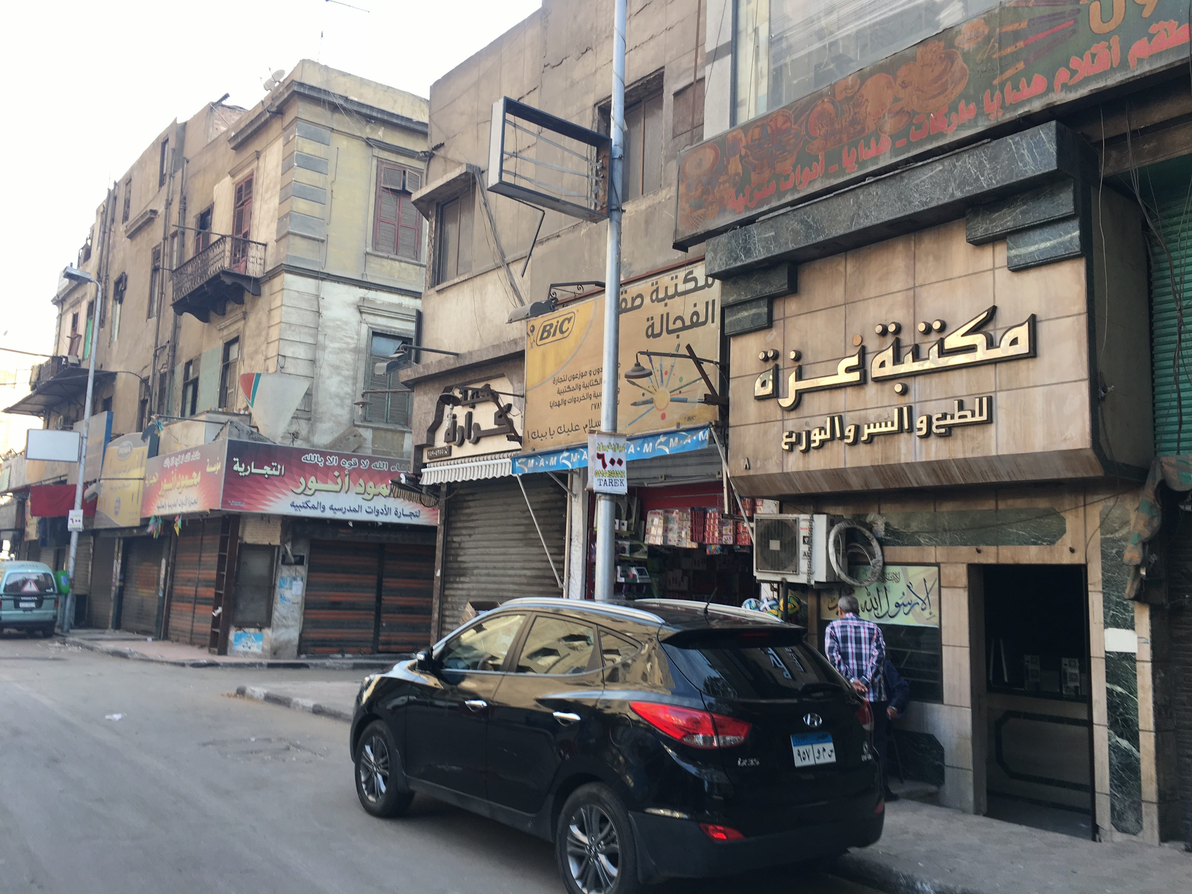 Faggala views by Hatem Moushir